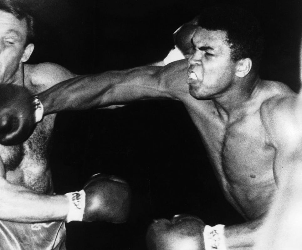 Muhammad Ali fights Brian London on August 6, 1966